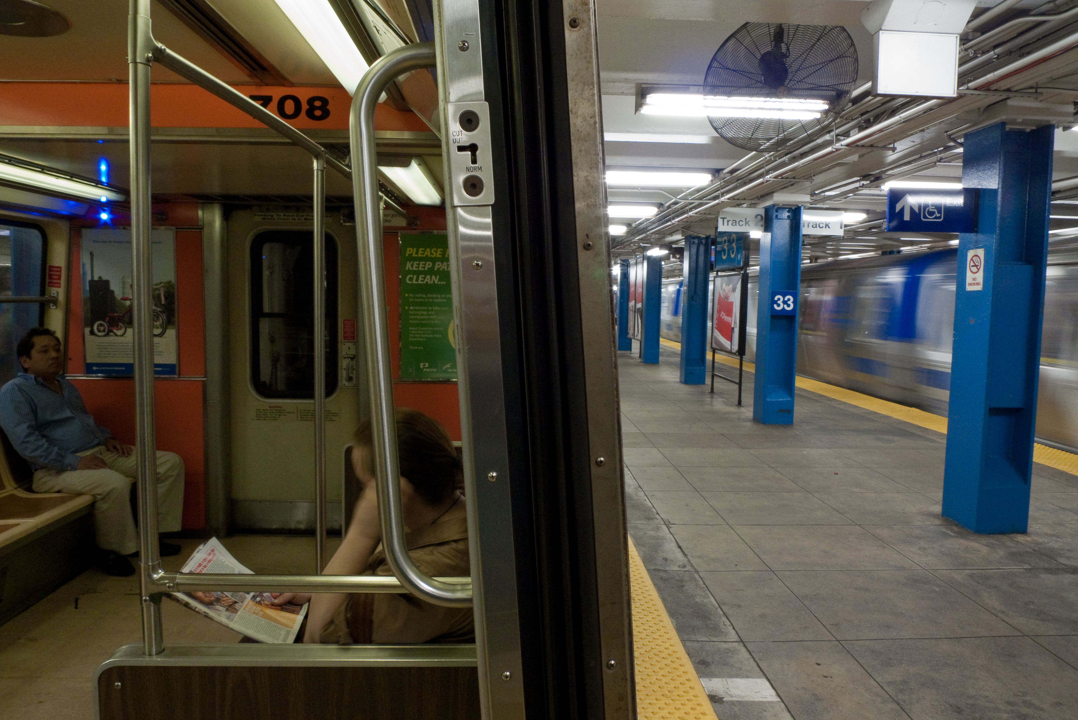 33rd St. PATH Station in Herald Square. Old train on the left, new one in motion on the right. 221/365